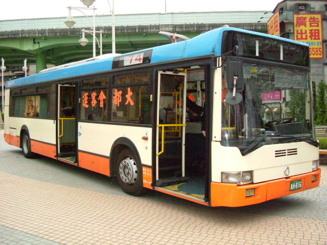 Metropolitan Transport Corporation operated Taipei City Route 74 with IKARUS 412 low chassis bus.